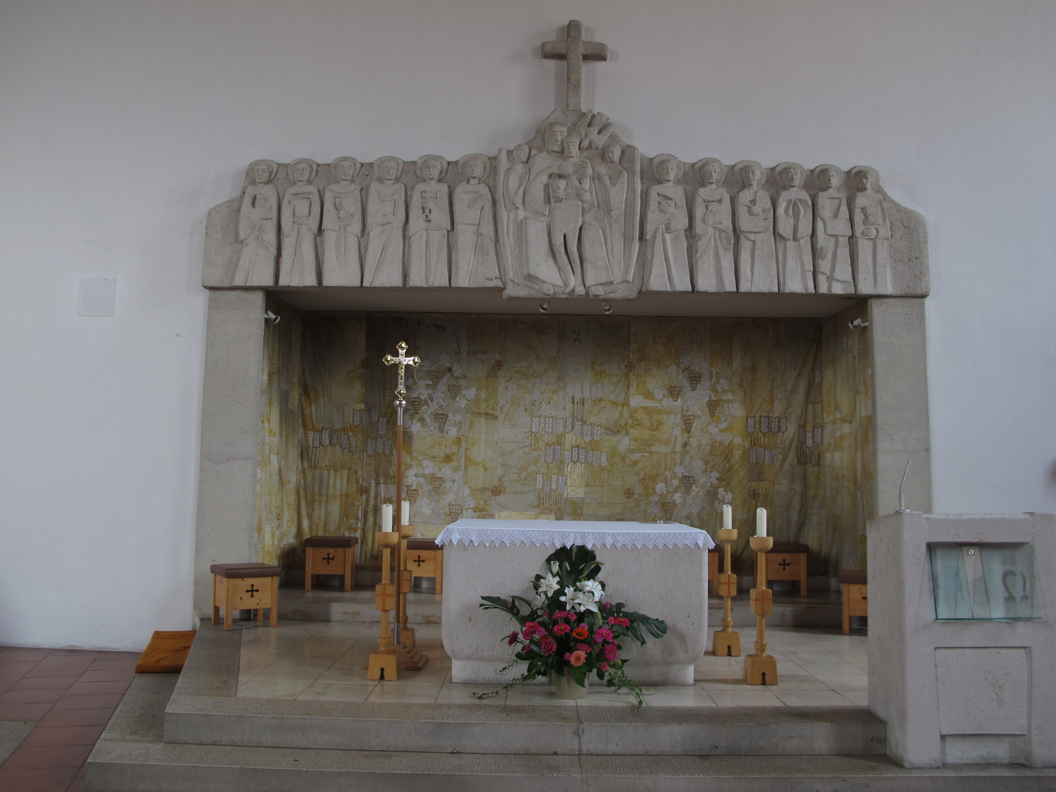 St. Oswald (Marktl)